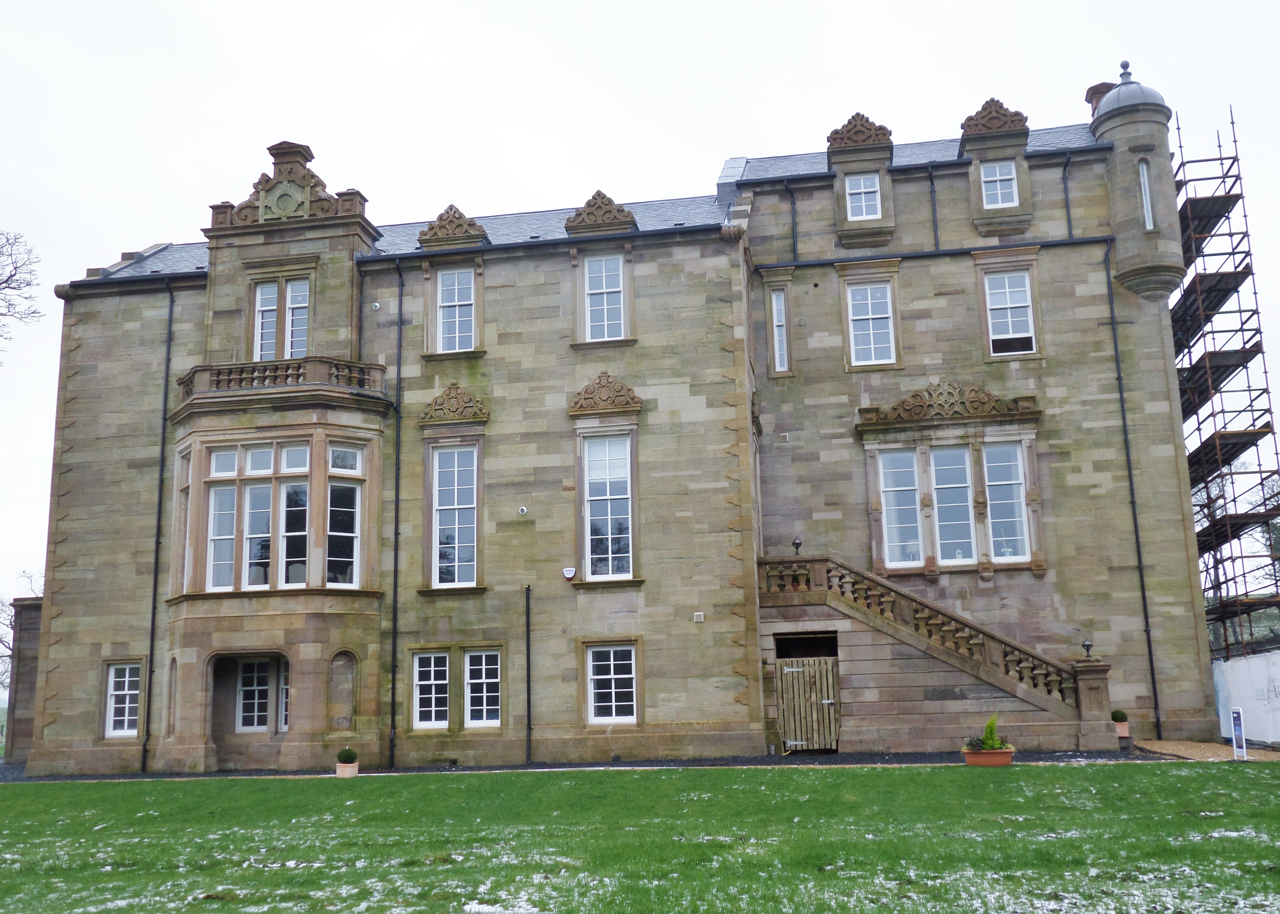 Dunlop House, north facing aspect, East Ayrshire, Scotland. David Hamilton was the architect for Jir John Dunlop. 1831-34.